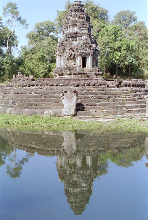 The central shrine in the Neak Pean temple, Angkor, Cambodia